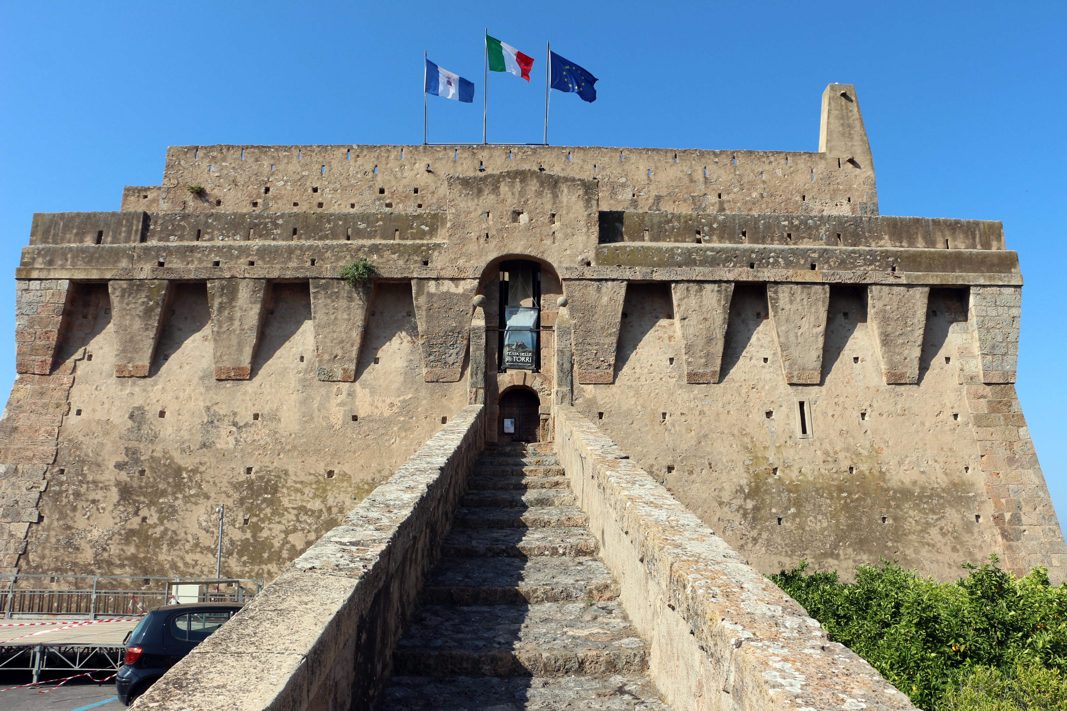 Porto Santo Stefano